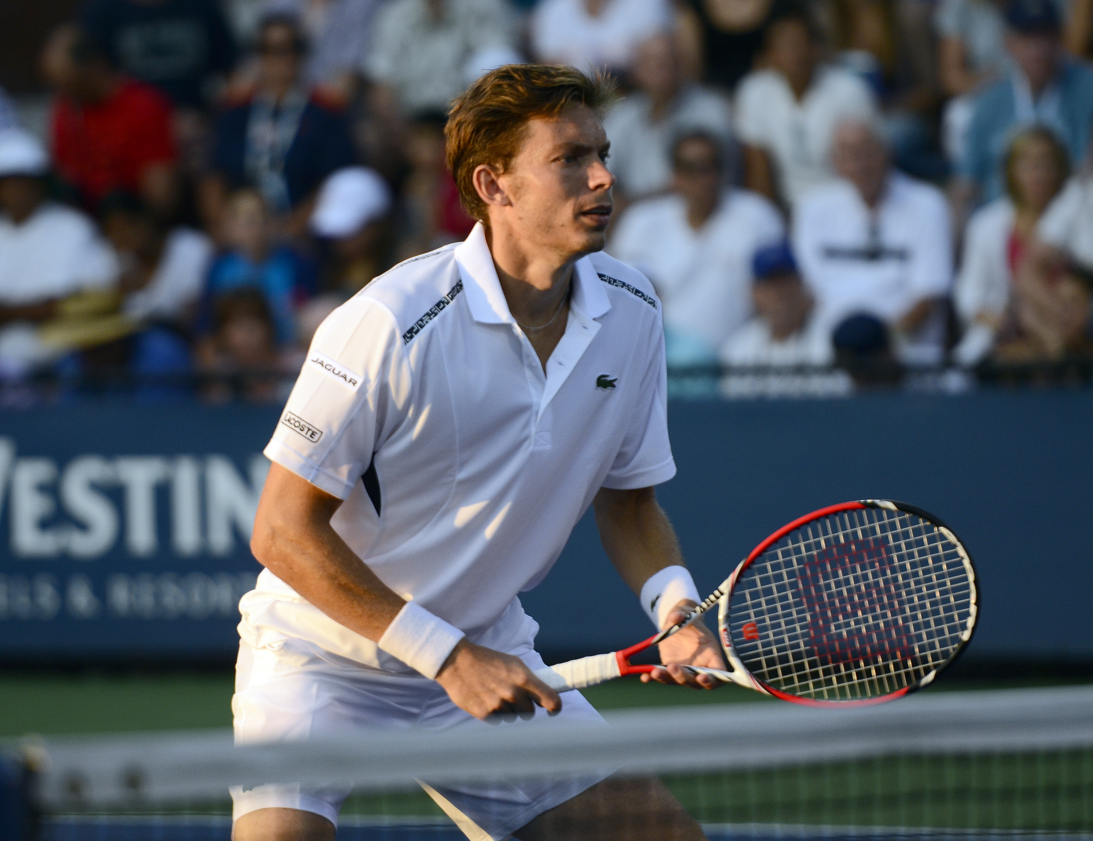 August 26, 2014 Queens, NY Michael Llodra and Nicolas Mahut (FRA) def. Peter Kobelt and Hunter Reese (USA)